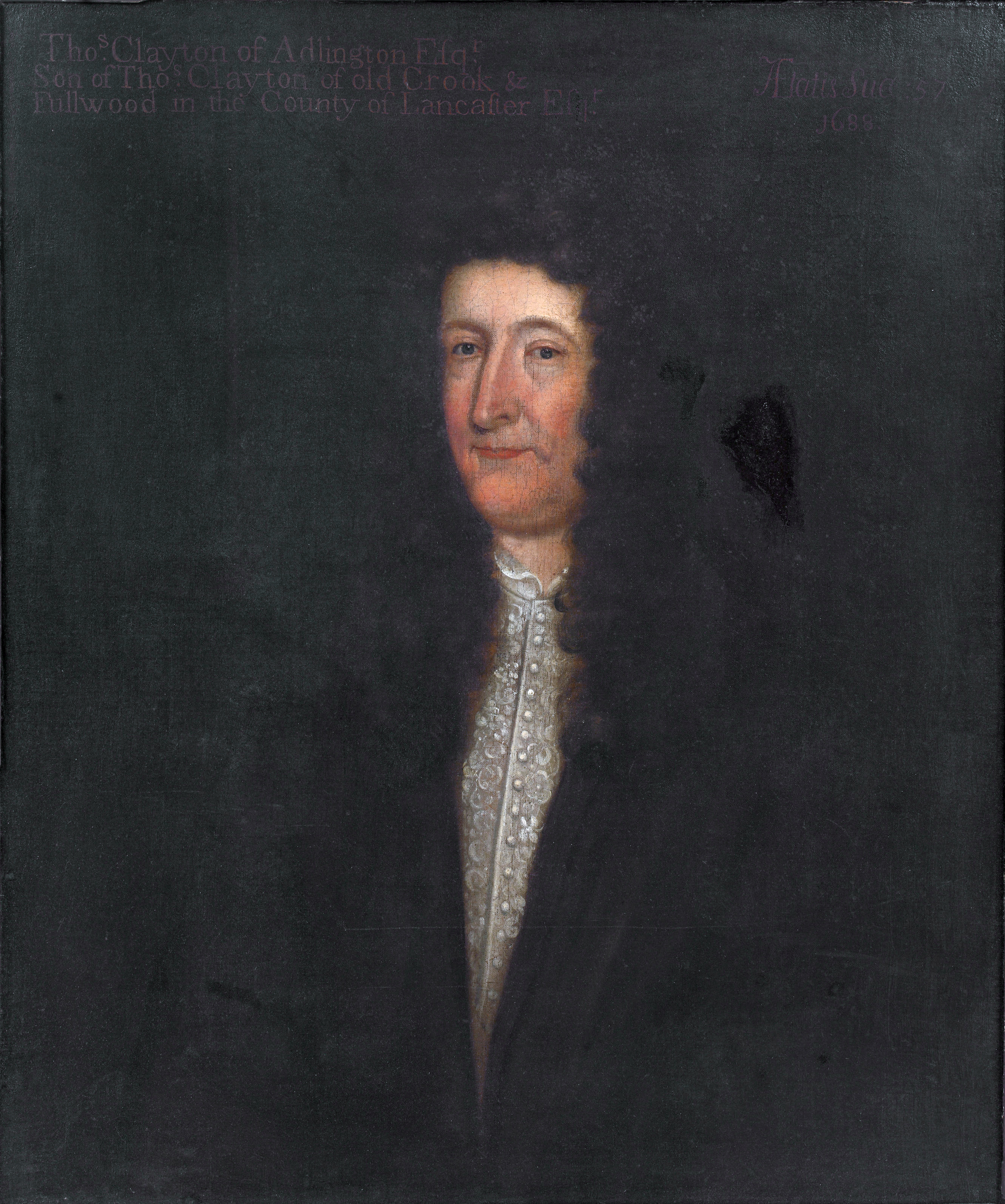 Thomas Clayton of Adlington oil on canvas 77 x 64.5 cm inscribed u.l.: Tho.s Clayton of Adlington Esq.r / Son of Tho.s Clayton of old Crook & / Fullwood in the County of Lancaster Esq.r inscribed u.r.: Aetatis suae: 57 / 1688